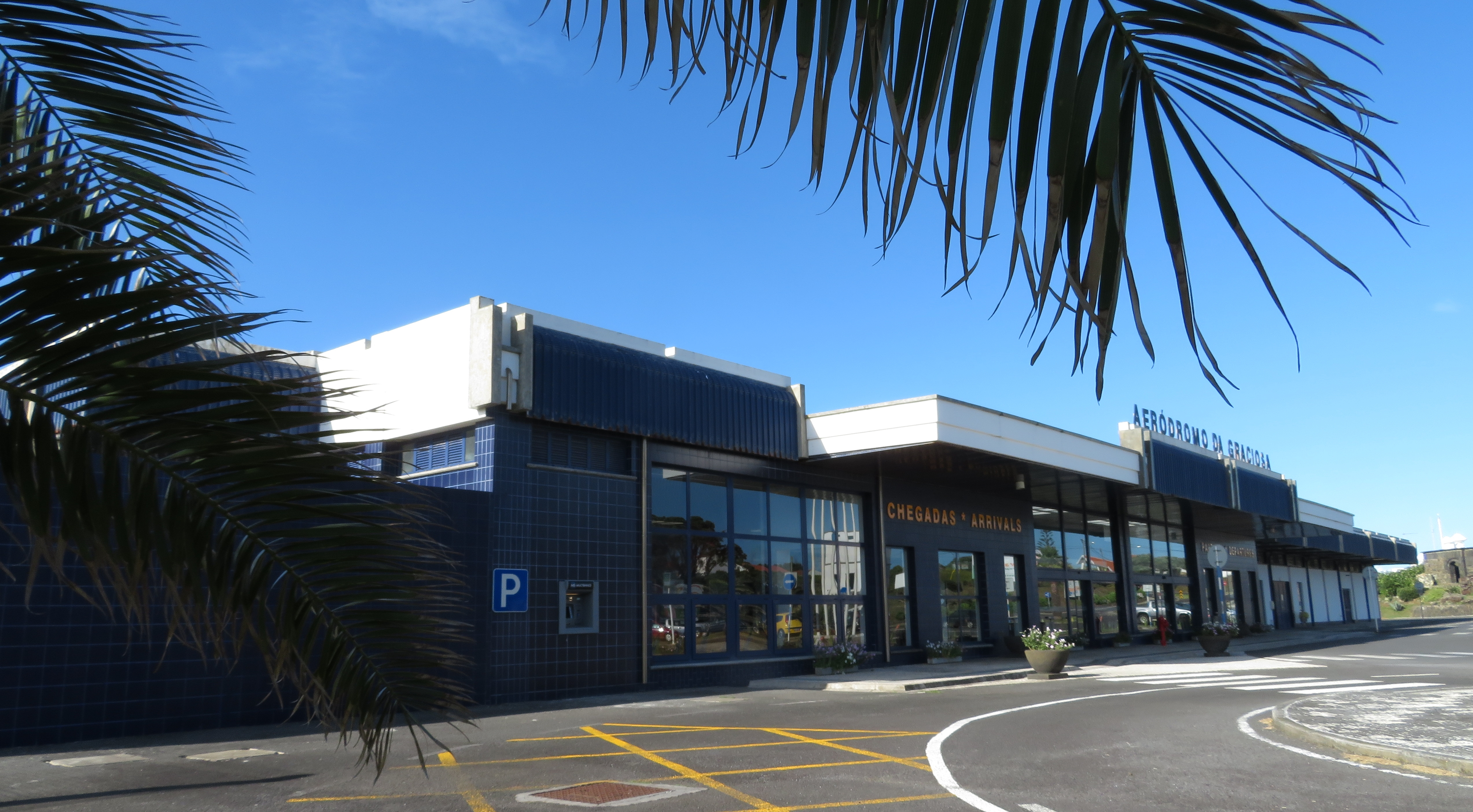 Airport, Graciosa island, Acores, Portugal